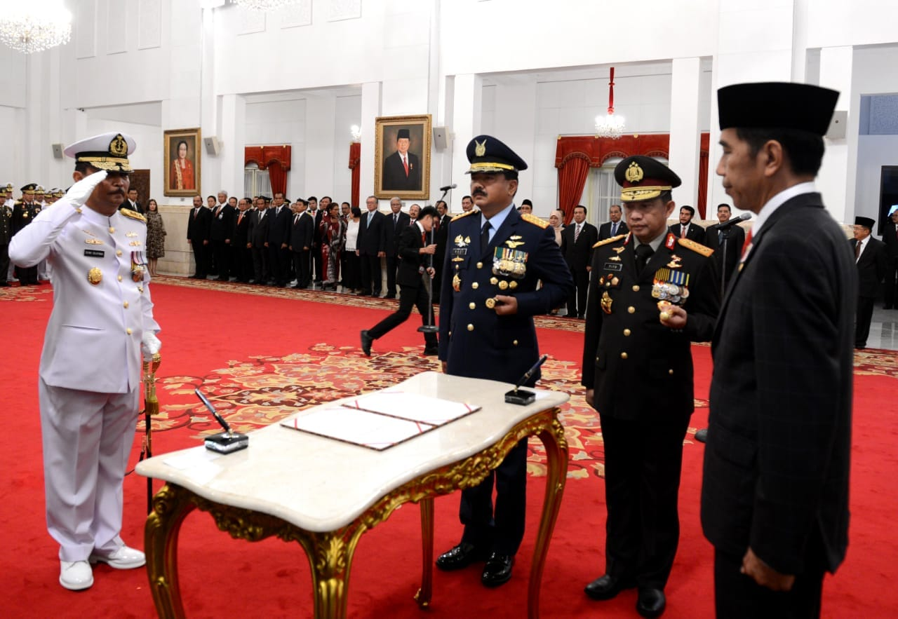 New Indonesian Navy Chief of Staff Siwi Sukma Adji saluting president Joko Widodo in his inauguration. Second from left: TNI Commander Hadi Tjahjanto